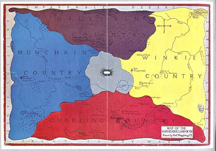 Map of Oz within the surrounding deserts.